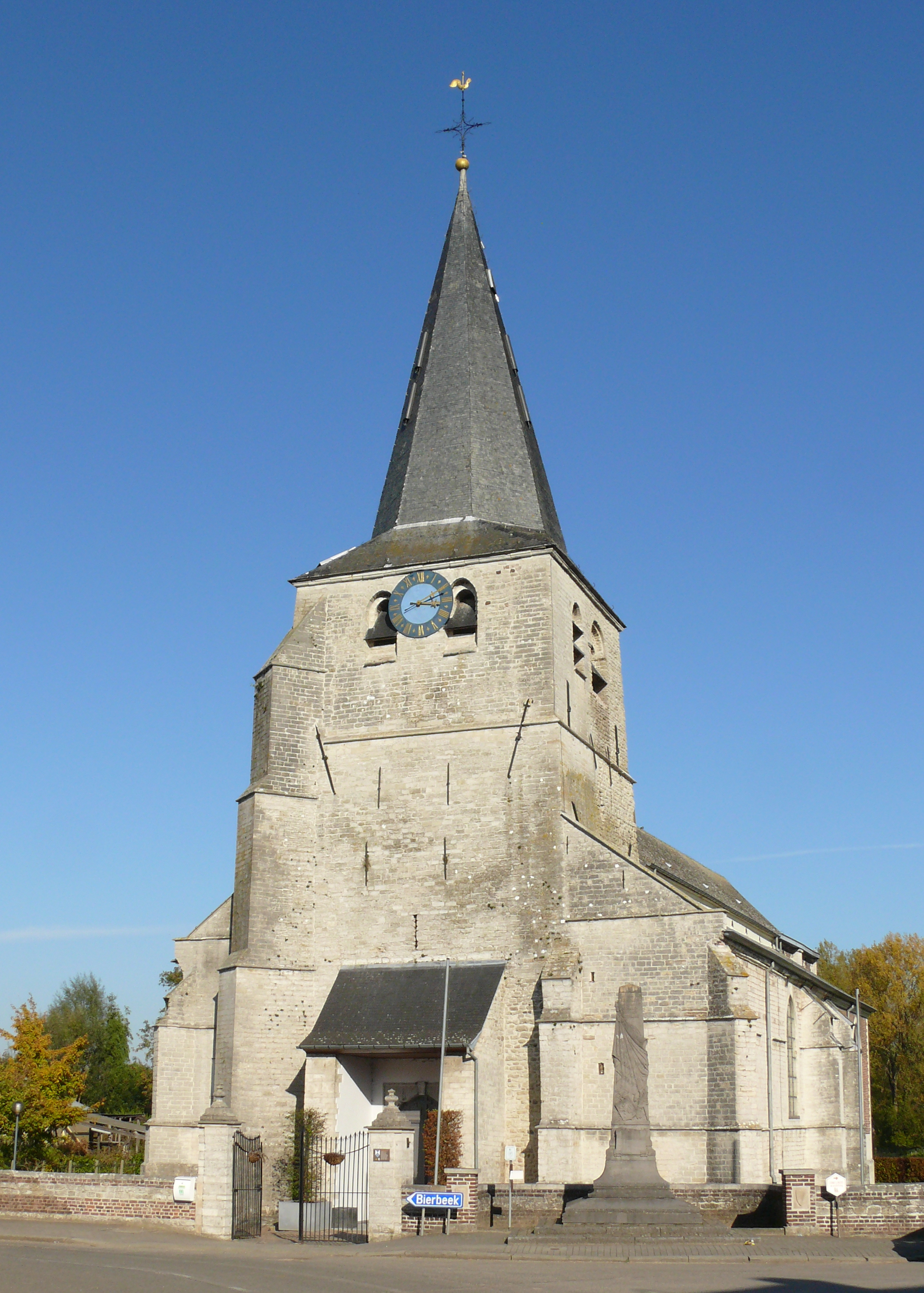 Church of Saint Ermelinde in Meldert, Hoegaarden, Belgium. The church is a one volume building with a three fold choir in traditional style (1629). Its oldest parts date back to the merovingian period.